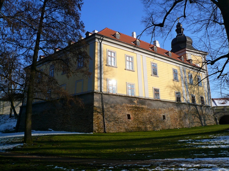 Zámek ctěnice, pohled od SZ